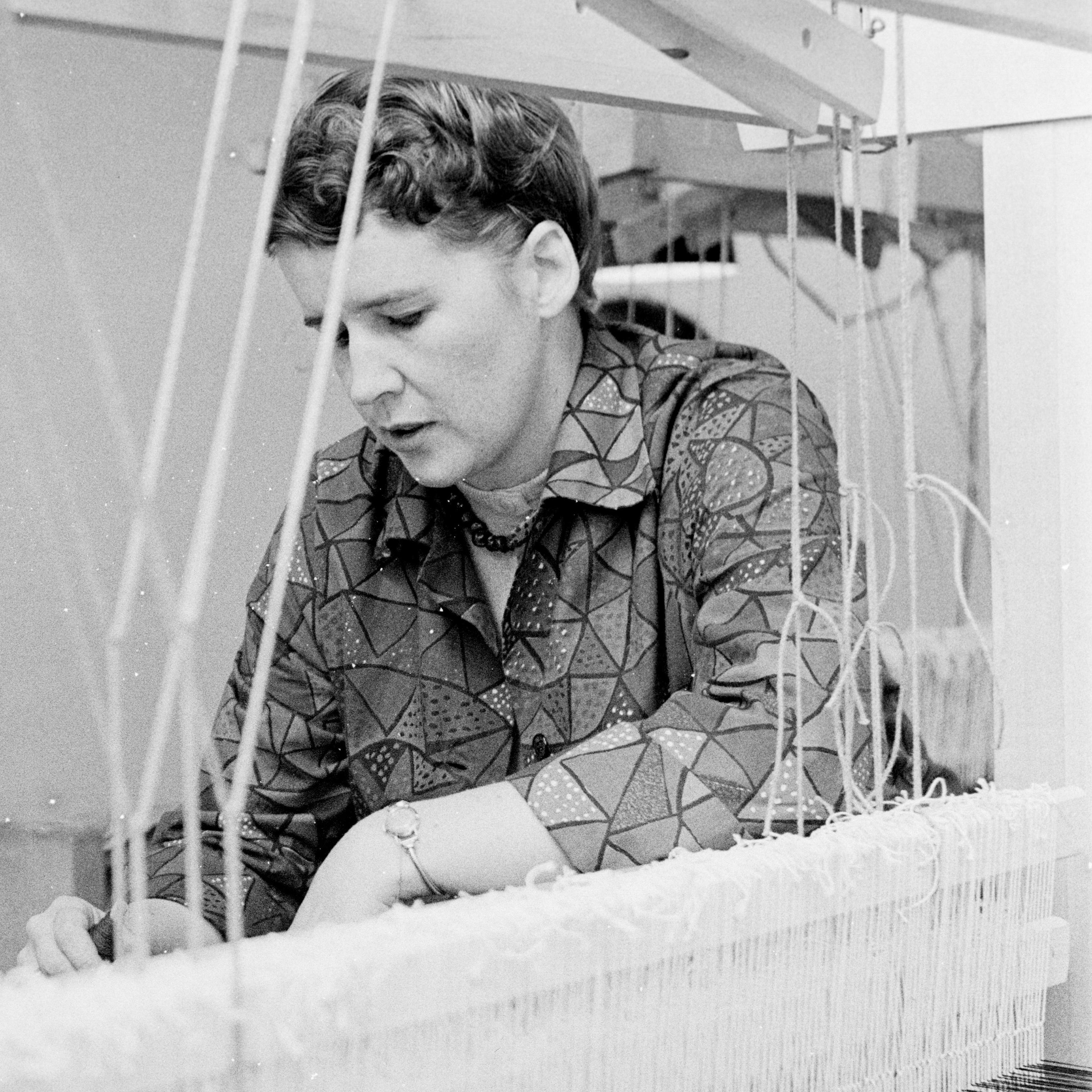 Tekstiilitaiteilijja Kirsti Ilvessalo neuvottelemassa kutojan kanssa. photographer unknown / kuvaaja tuntematon 1956 Finland Finnish Museum of Photography / Suomen valokuvataiteen museo